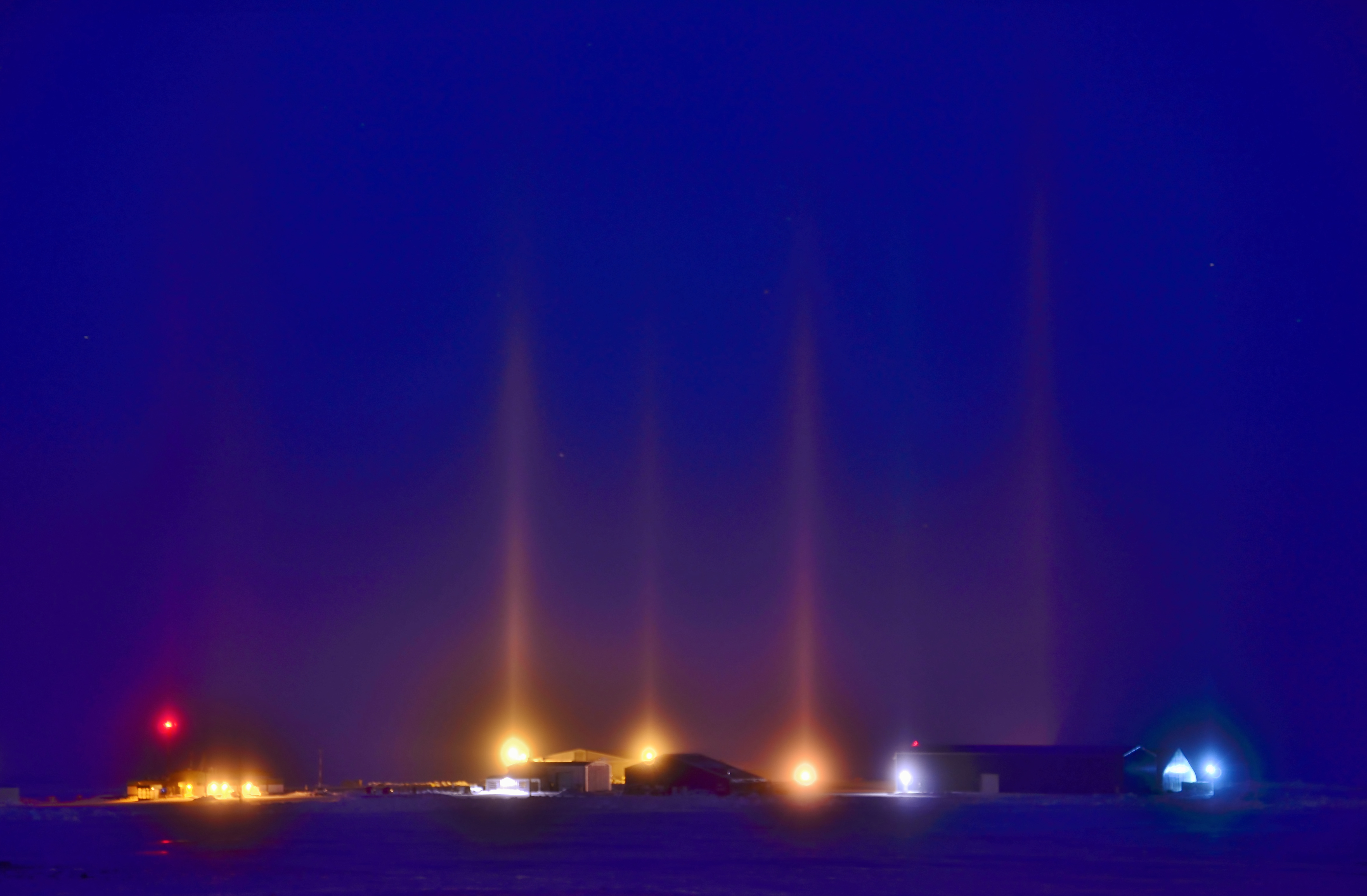 Slight blowing snow and an abundance of ice particles on an otherwise bitterly cold, clear night at Cambridge Bay Airport led to this optical phenomena. A reflection of light through hexagonal plate shaped crystals is primarily responsible for their development.